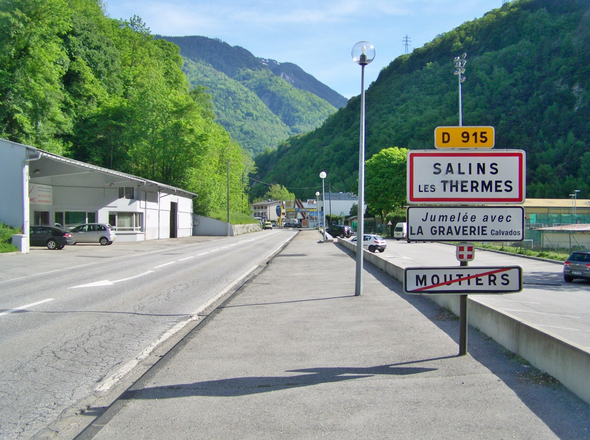 Welcoming sign to the French commune of Salin-les-Thermes near Moûtiers in the Tarentaise valley, in Savoie.